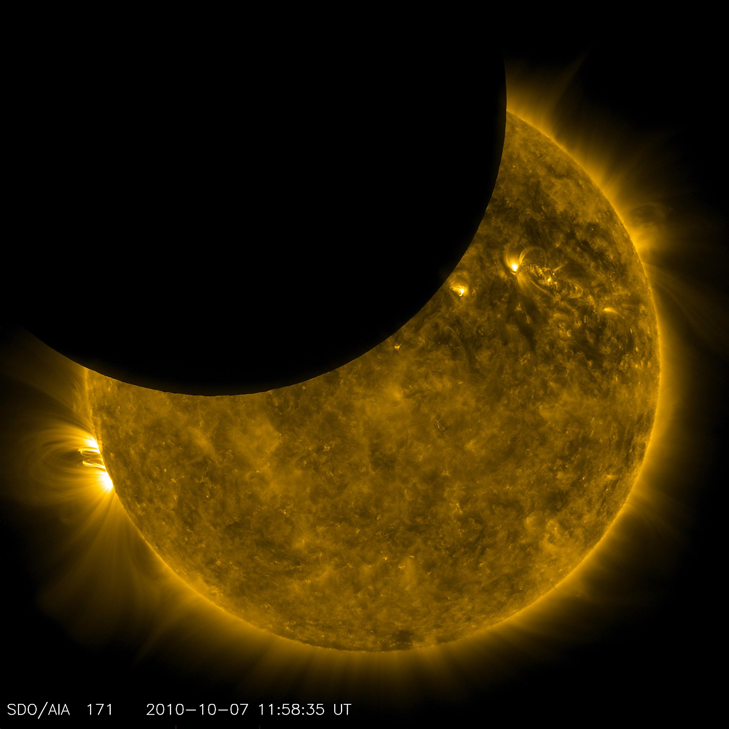 On Oct. 7, 2010, NASA's Solar Dynamics Observatory, or SDO, observed its first lunar transit when the new moon passed directly between the spacecraft (in its geosynchronous orbit) and the sun. With SDO watching the sun in a wavelength of extreme ultraviolet light, the dark moon created a partial eclipse of the sun.